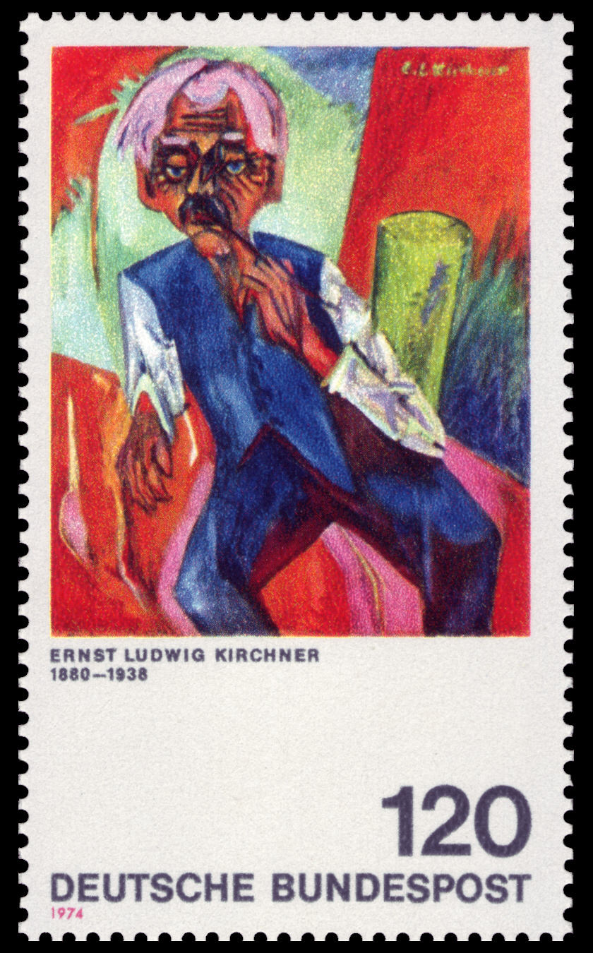 German expressionism Ausgabepreis: 120 Pfennig First Day of Issue / Erstausgabetag: 29. Oktober 1974 Michel-Katalog-Nr: 823